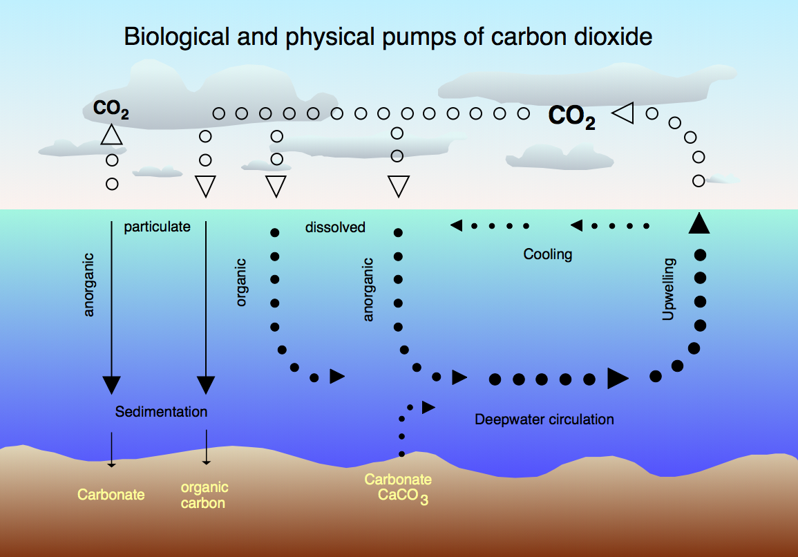 Air - sea exchange of carbon dioxide